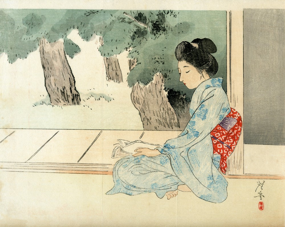 Print "Reading girl"